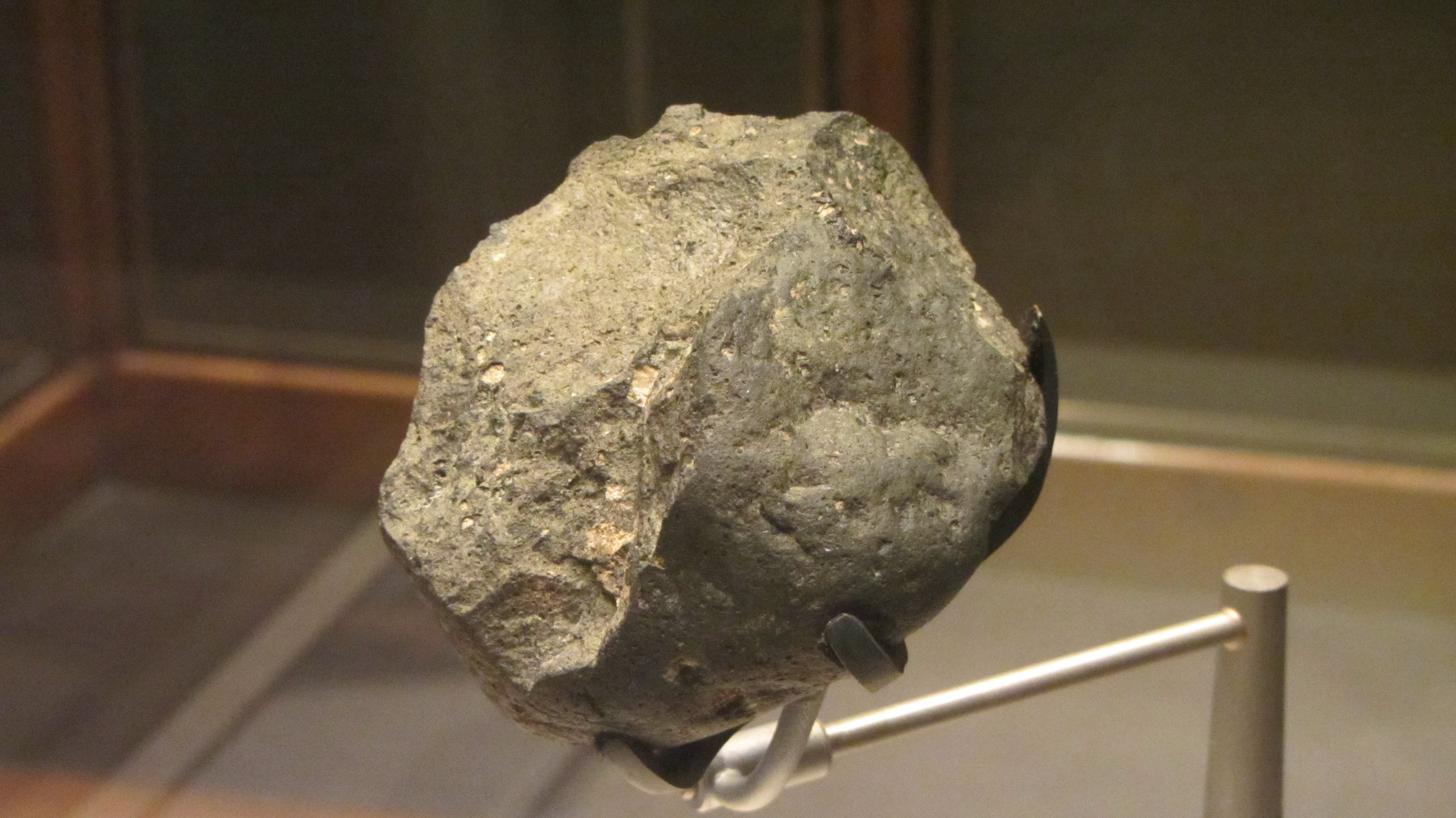 Olduvai stone chopping tool, made from basalt, from Olduvai Gorge, Tanzania, 1.8-2 million years old. British Museum (1934,1214.1).